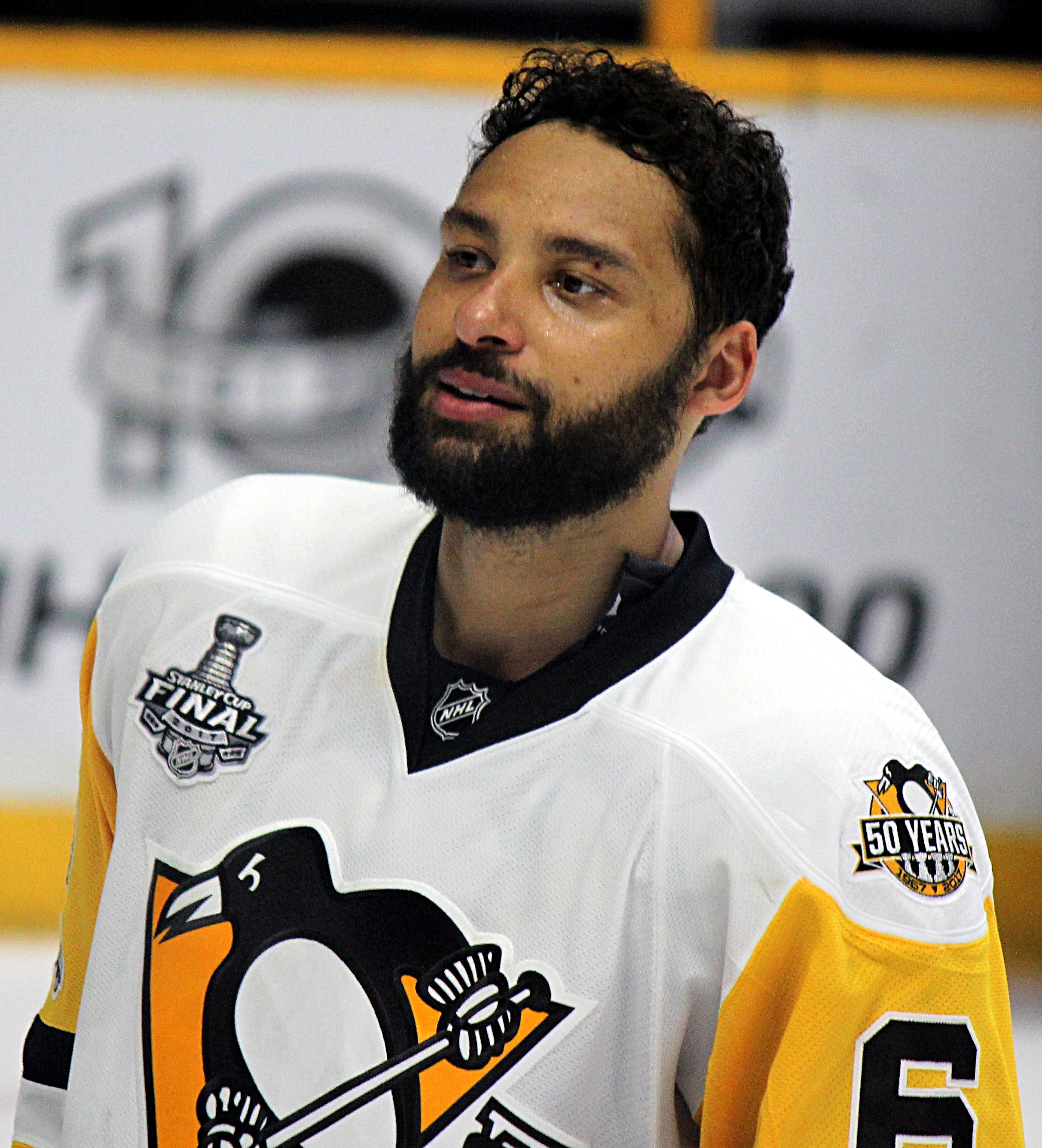 Pittsburgh Penguins defenseman Trevor Daley is seen during the Penguins on-ice celebration after winning the 2017 Stanley Cup versus the Nashville Predators, June 11, 2017, at Bridgestone Arena in Nashville, TN.